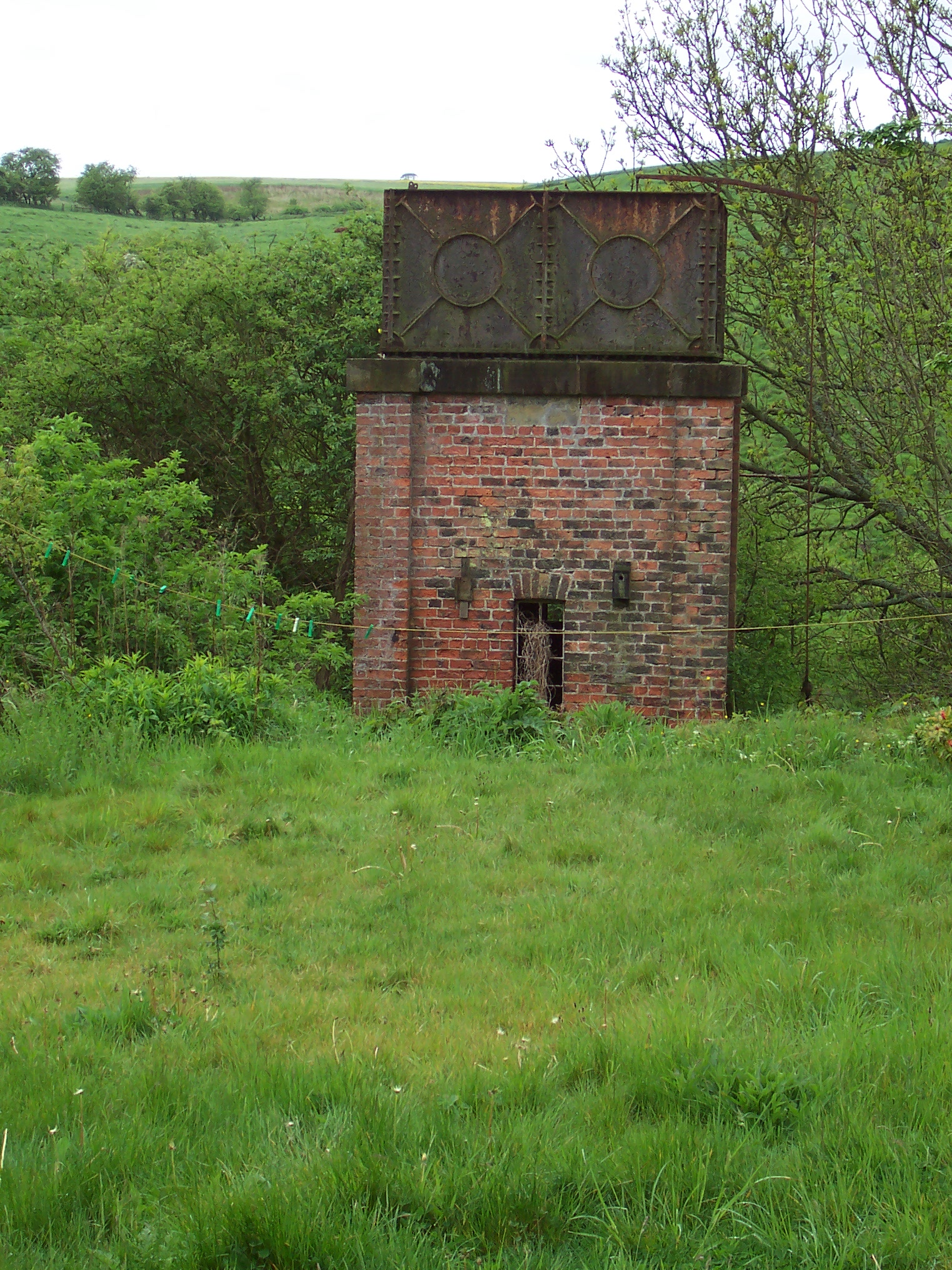 The old water tower at the former Wharram railway station.